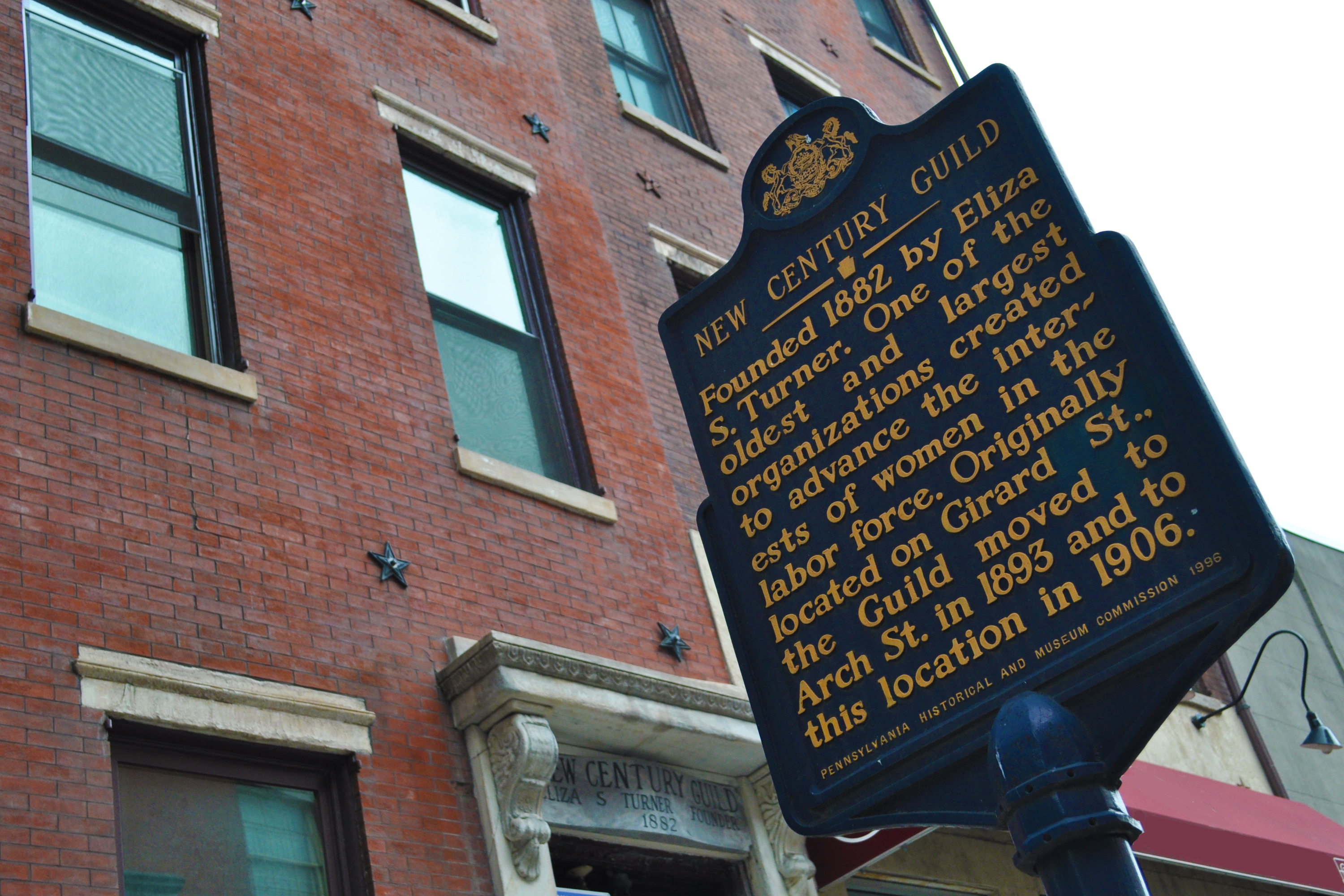 New Century Guild. Founded 1882 by Eliza S. Turner. One of the oldest and largest organizations created to advance the interests of women in the labor force. Originally located on Girard St., the Guild moved to Arch St. in 1893 and to this location in 1906. (Historical Marker at 1307 Locust St. Philadelphia PA - Pennsylvania Historical and Museum Commission 1996)